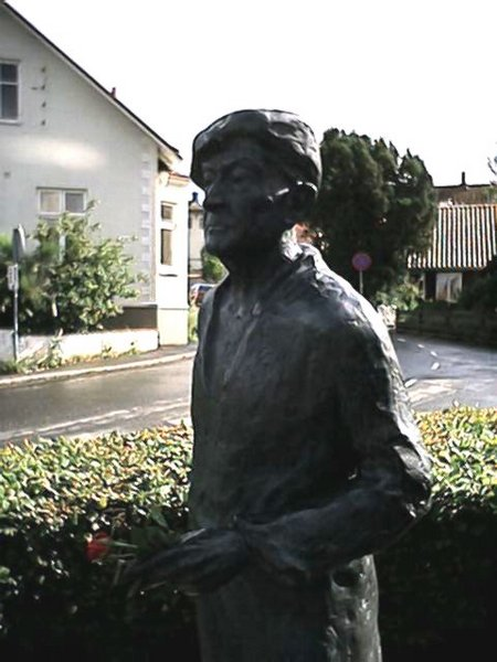 A statue of Fritiof Nilsson Piraten in the swedish village Kivik.